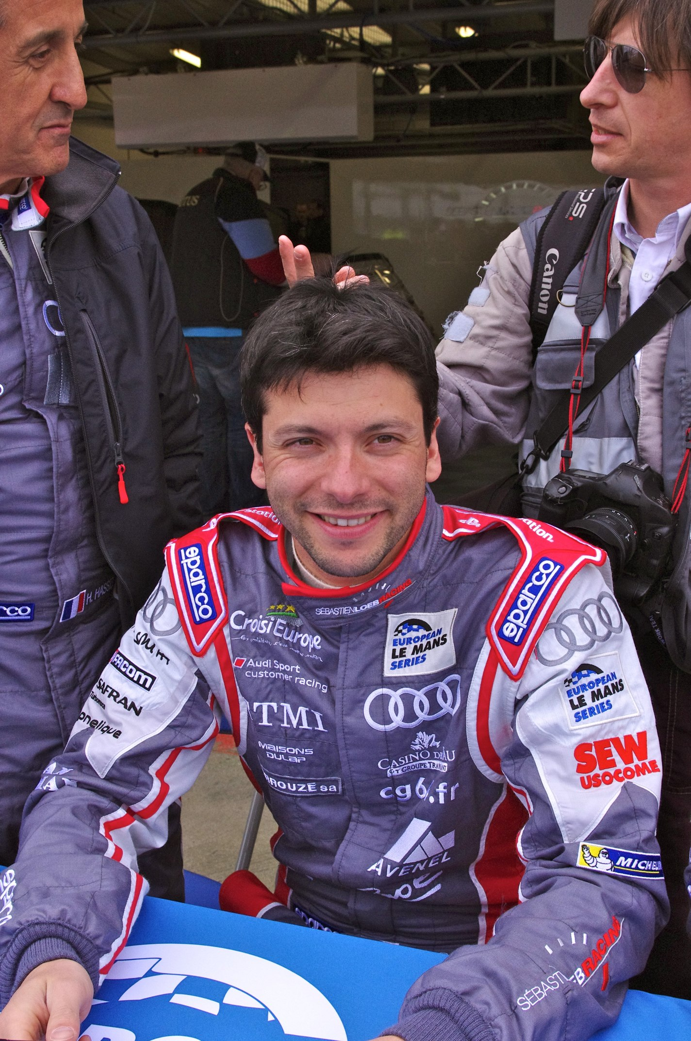 Mike Parisy at 2014 Silverstone 6 Hours.